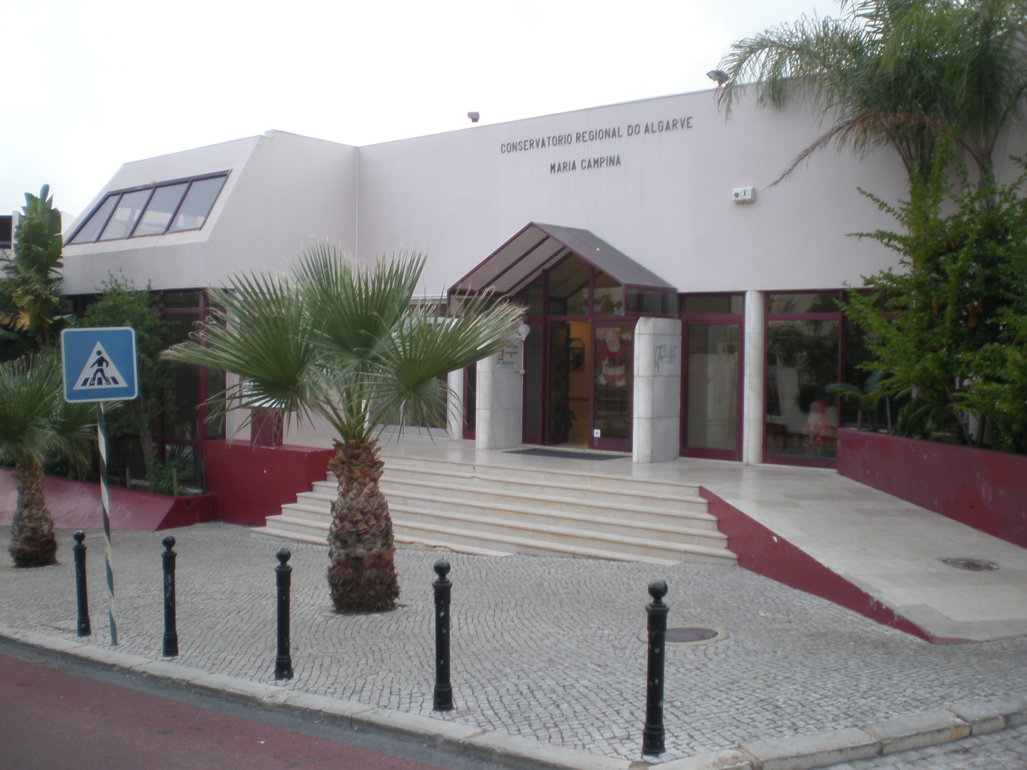 Music School (Conservatório Regional do Algarve), Faro, Portugal